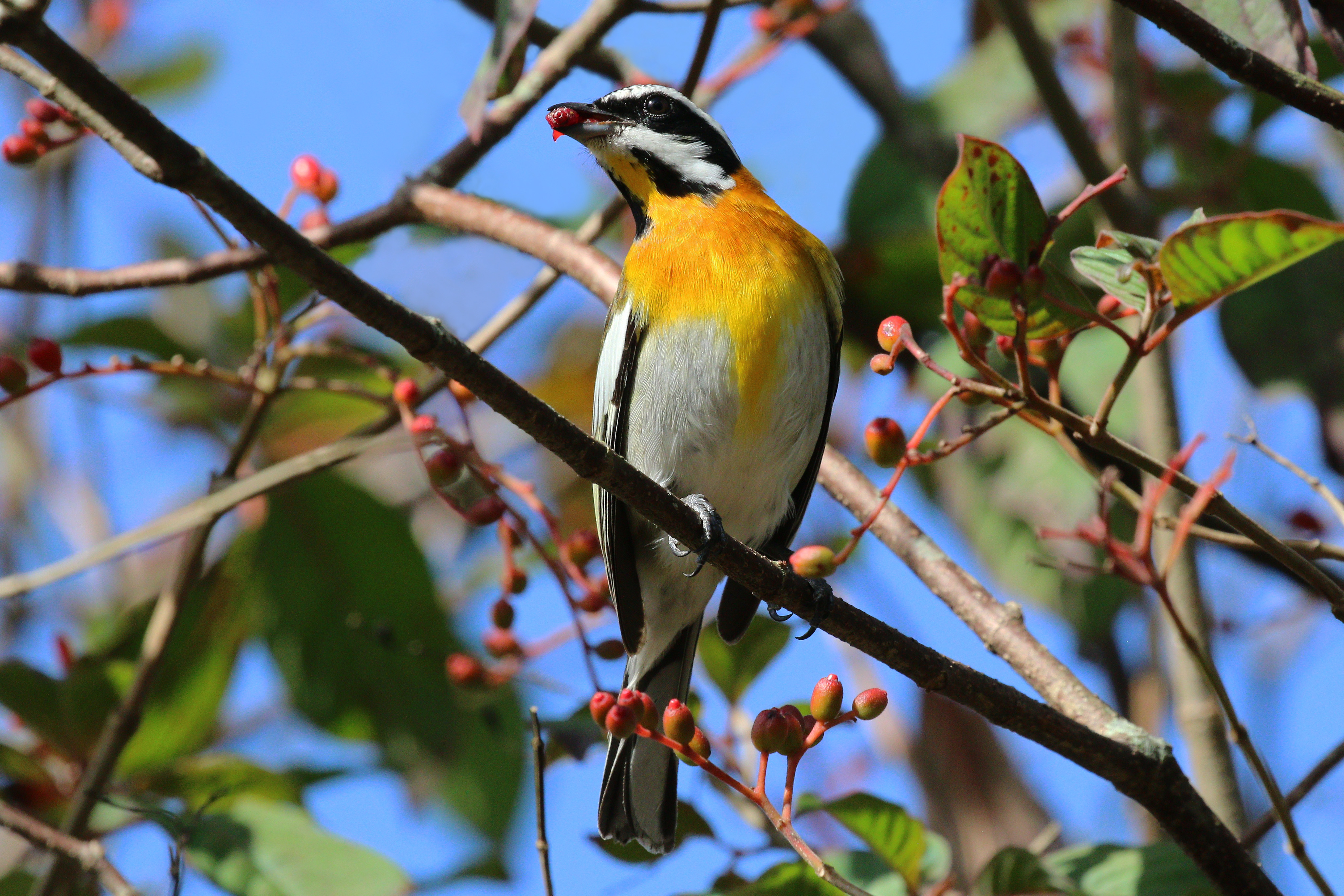 Western spindalis (Spindalis zena pretrei) male, Vinales, Cuba